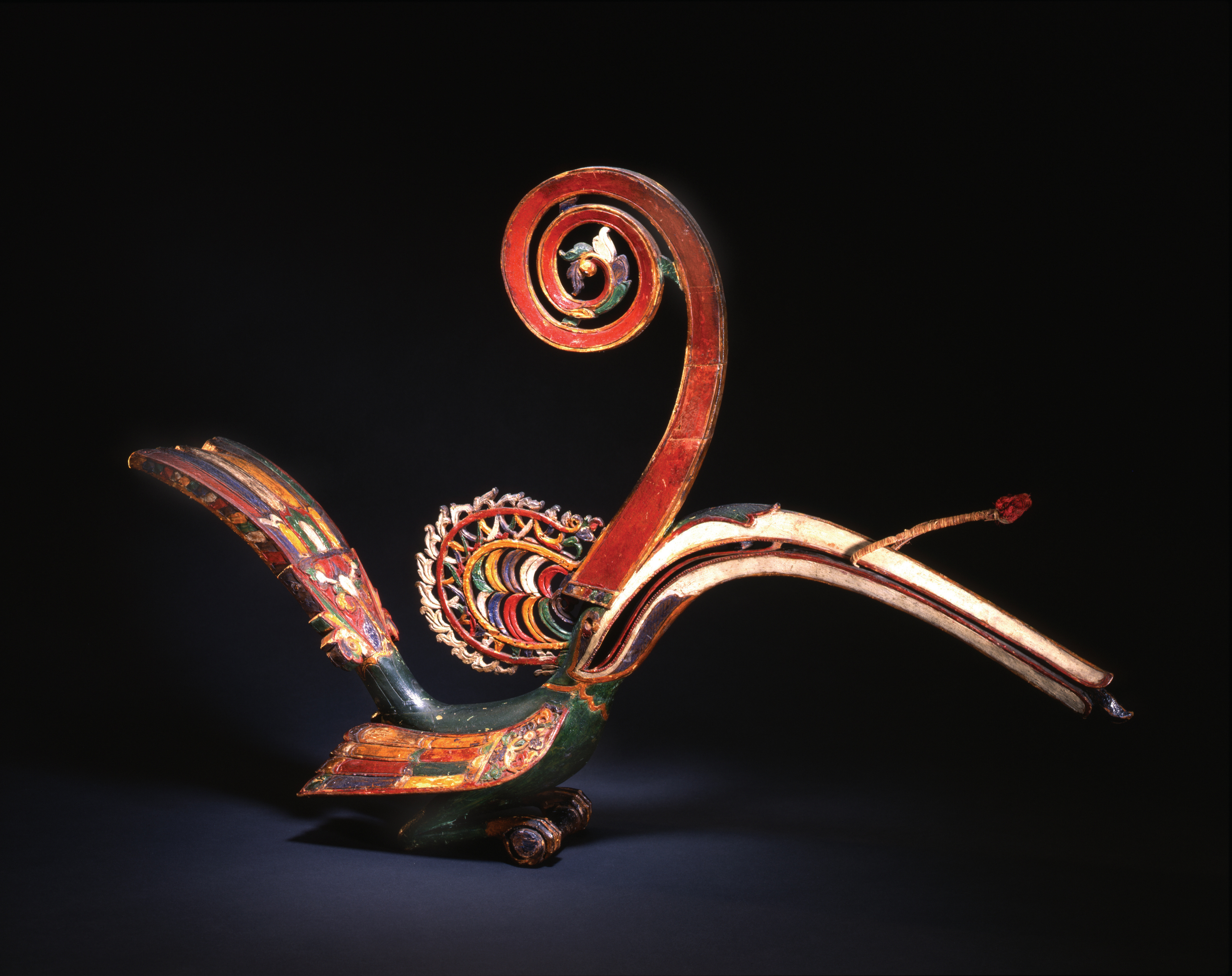 Hornbill Figure 19th century Iban, Borneo D: 84.6 cm Image courtesy of the Fowler Museum at UCLA. Photo by Don Cole.